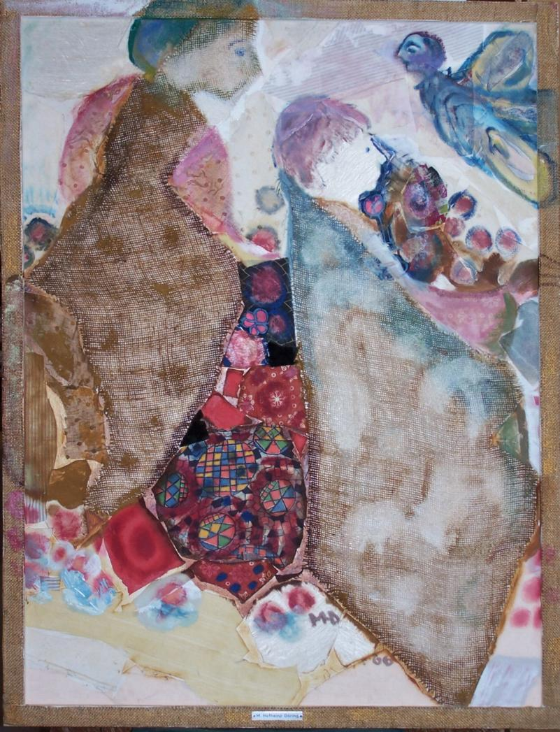 Sommernachtstraum, Strukturmalerei, 75x100cm, 1967 (WV-Nr.3479), by Margret Hofheinz-Döring